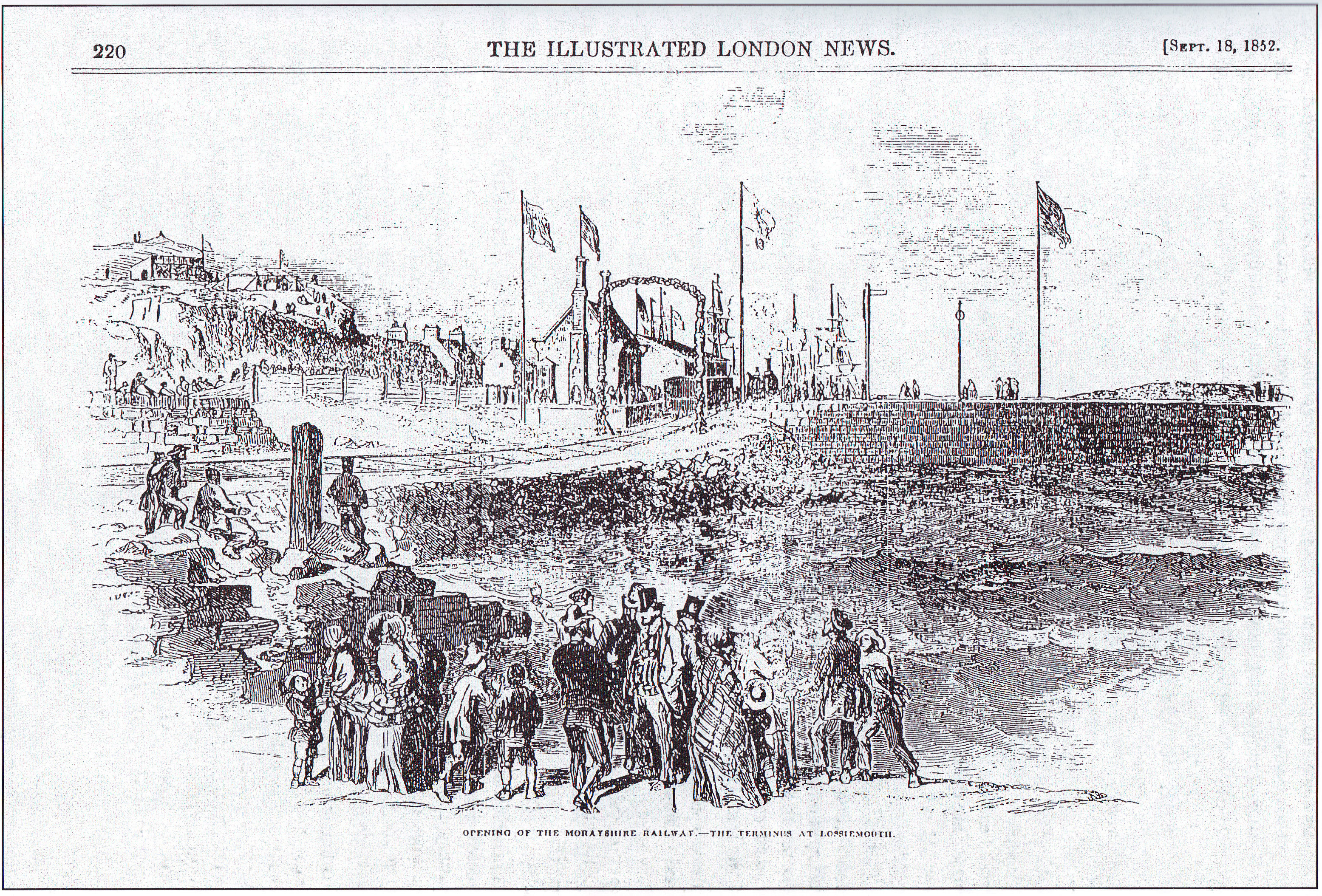 Scan of Illustrated London News etching